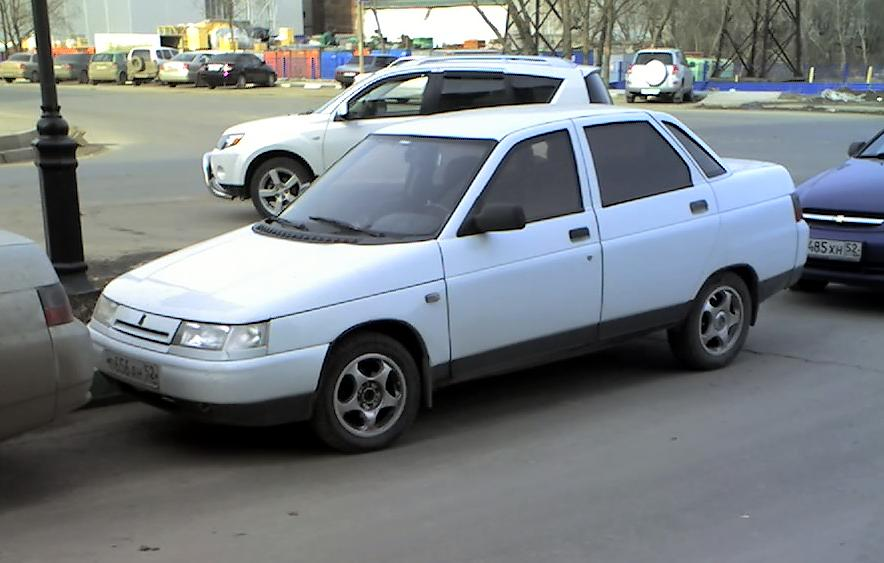 VAZ-2110